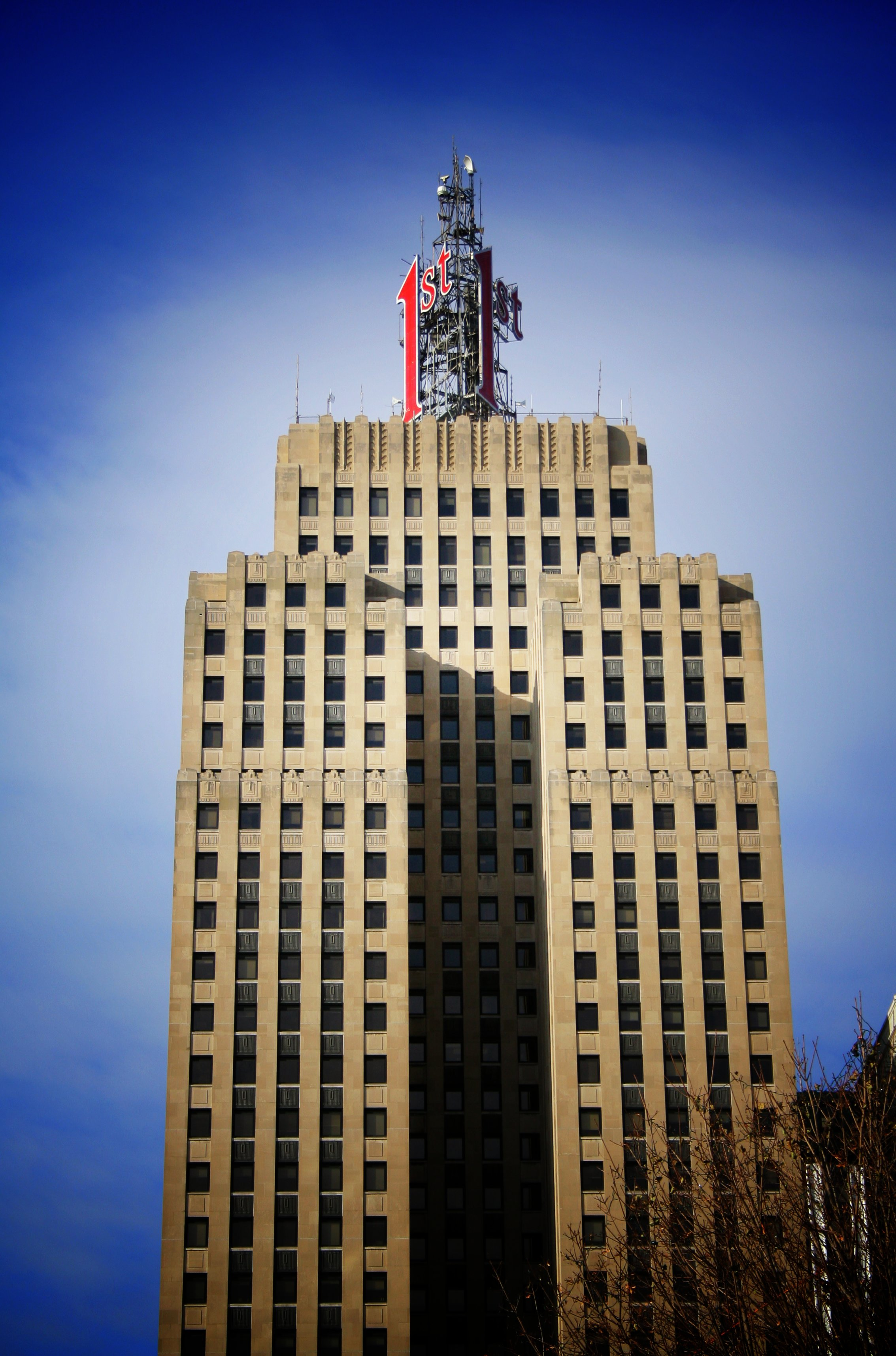 A cloud passed behind the building as I took this photo, creating a sort of natural lomo effect, so I just took it an extra step or two.